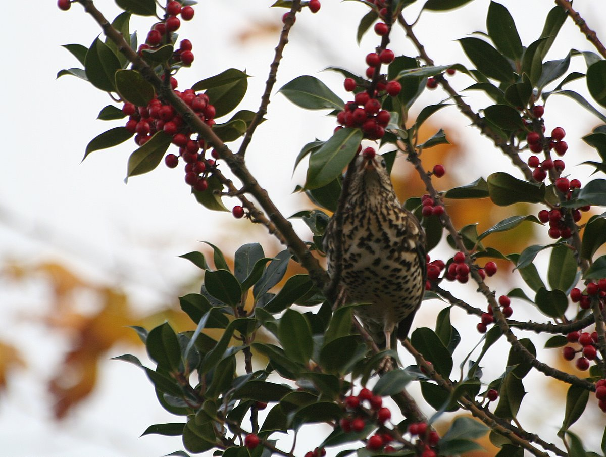 Mistle Thrush Turdus viscivorus. Malahide, Dublin, Ireland.